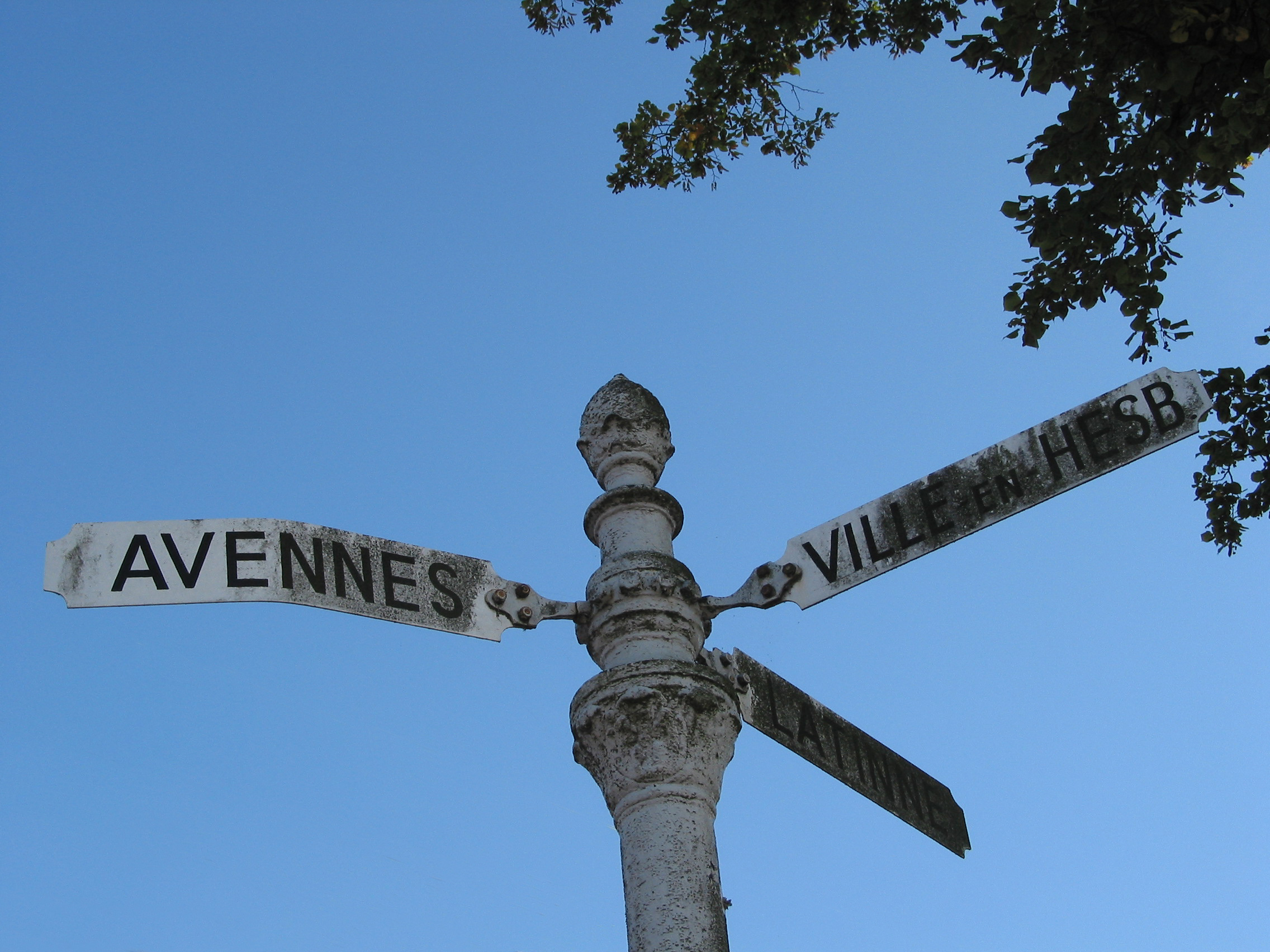 Braives (Belgium), signpost.